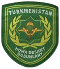 Turkmenistan Airborne Troops Insignia